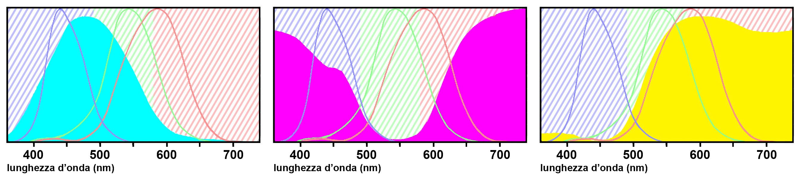 Real yellow, magenta, and cyan dyes for subtractive color synthesis. Note that these dyes are different from ideal dyes, since ideal dyes transmit all frequencies in their pass-bands and nothing in their stop-bands.